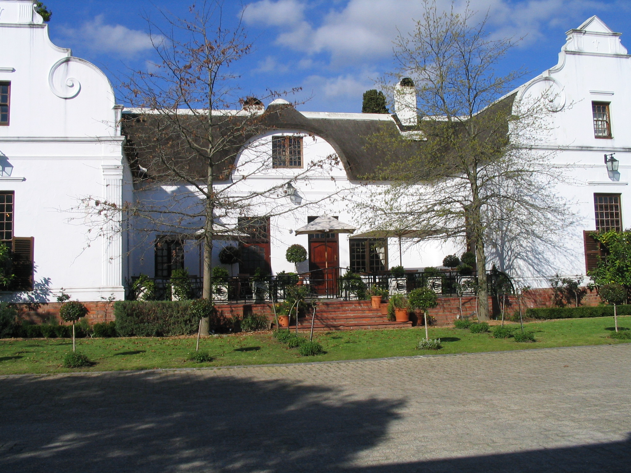 La Gratitude, Dorp Street, Stellenbosch This media shows a South African Protected Site with SAHRA file reference 9/2/084/0064.